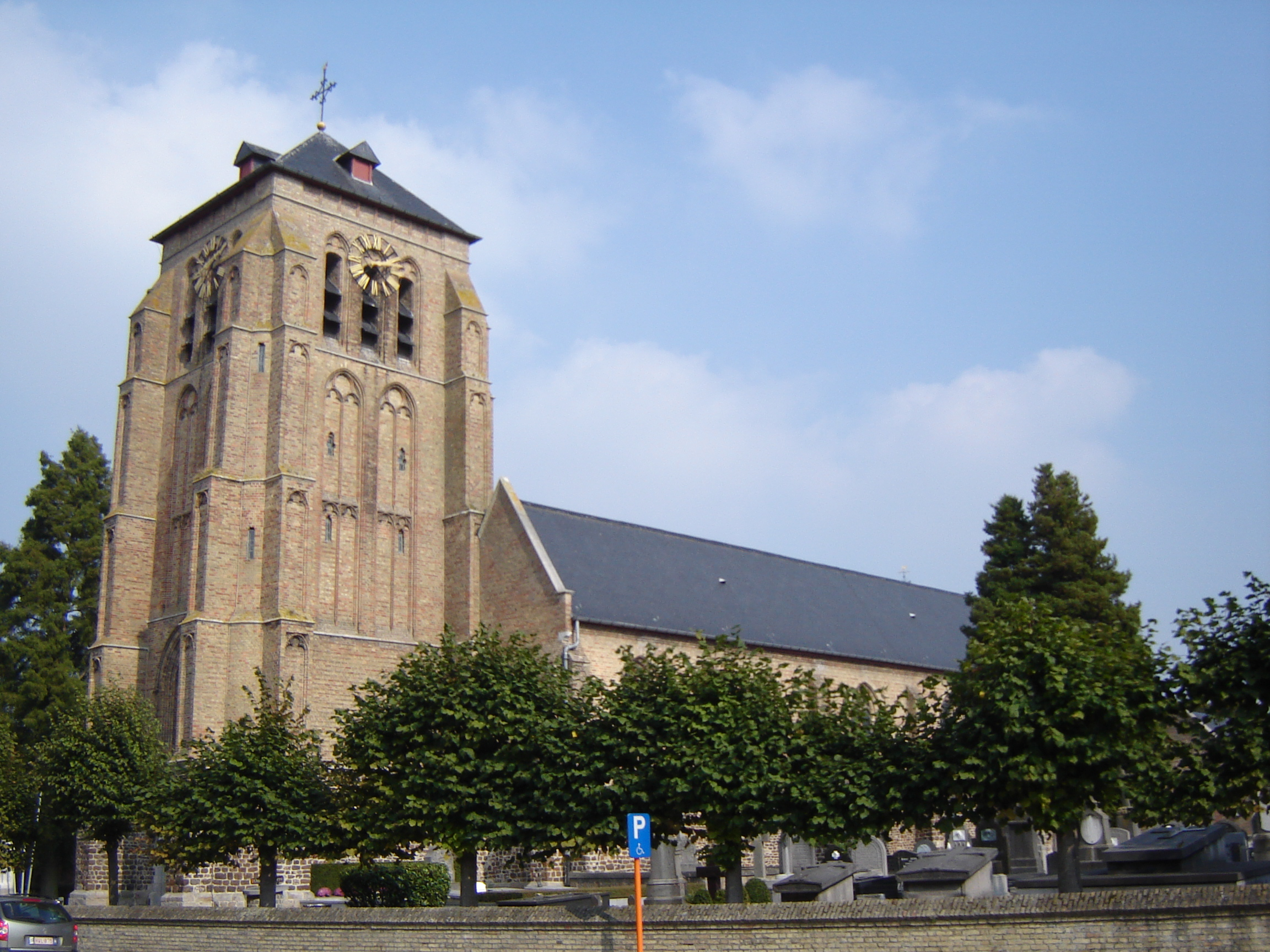 Church of Saint Catherine in Zillebeke. Zillebeke, Ieper, West Flanders, Belgium